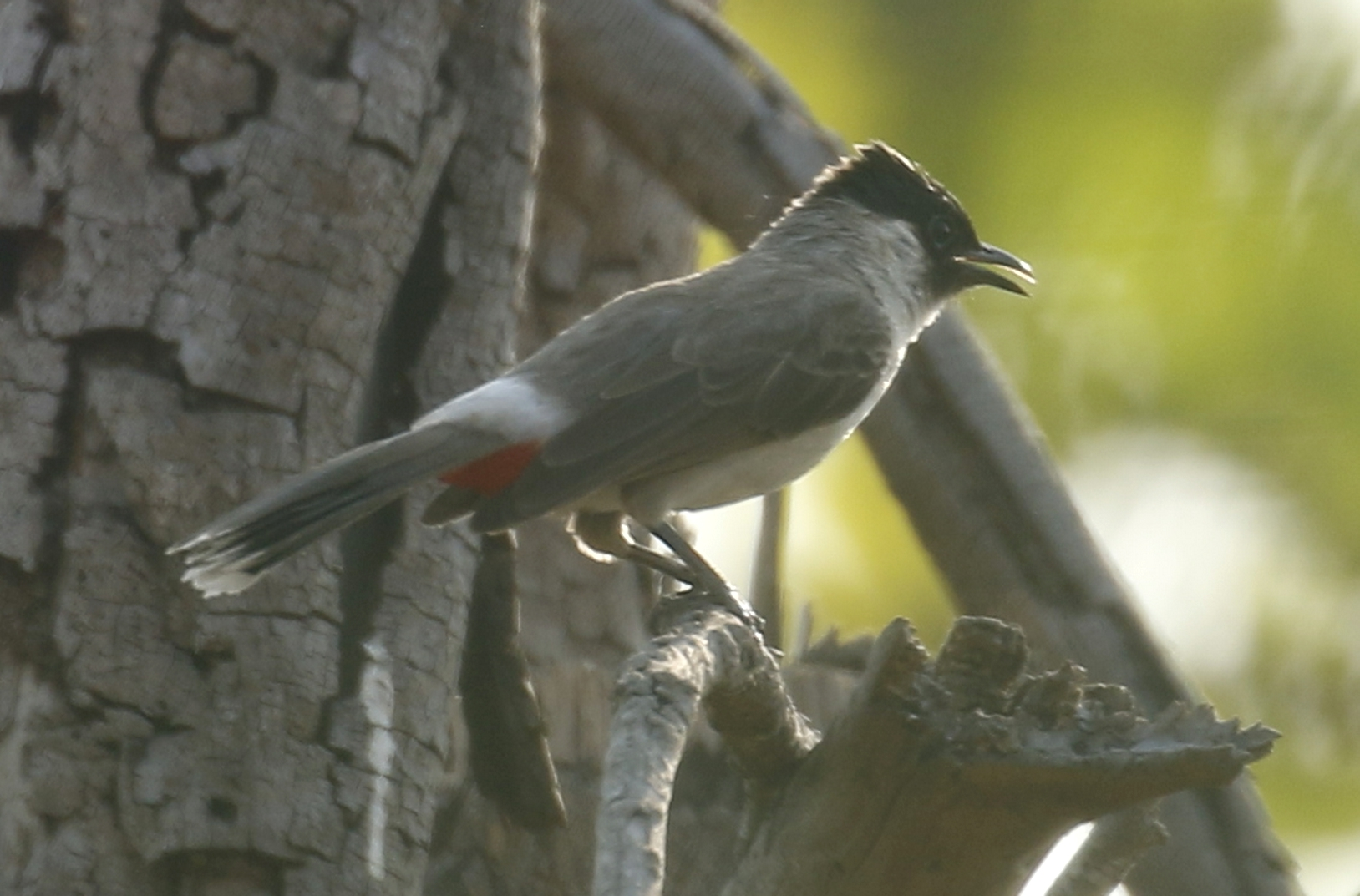 Near Inthanon Highland Resort - Thailand